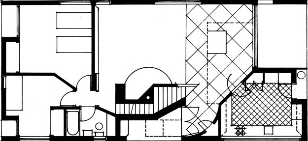 Floor plan of the ground floor of the Vanna Venturi House, designed by Robert Venturi.